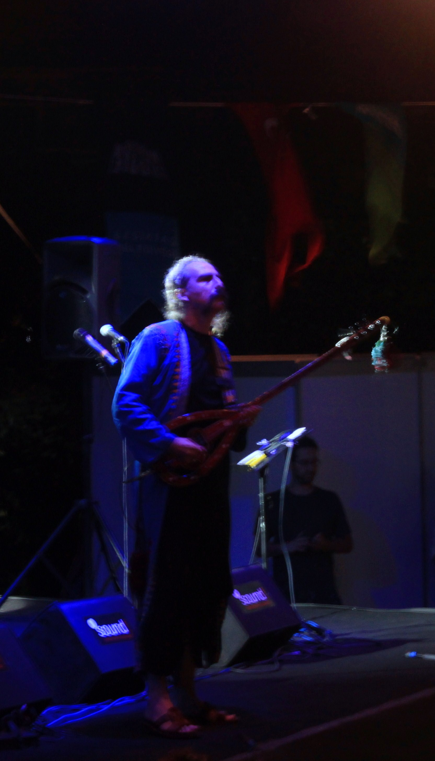 Murat Ertel from Baba Zula on stage at Abbasağa Park (Beşiktaş Municipality "Summer evening concerts", Istanbul 2010).